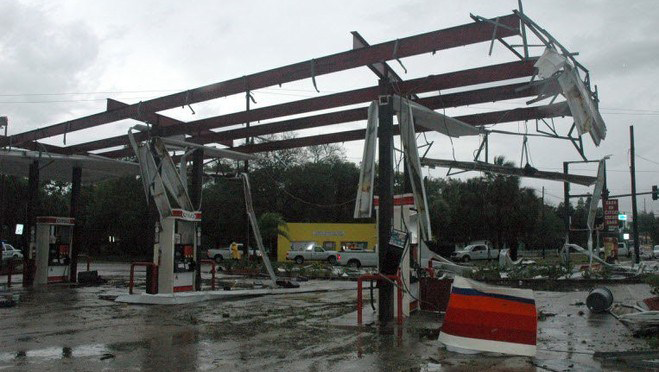 Damage from an EF1 tornado in Central Hillsborough, Florida on March 31, 2011